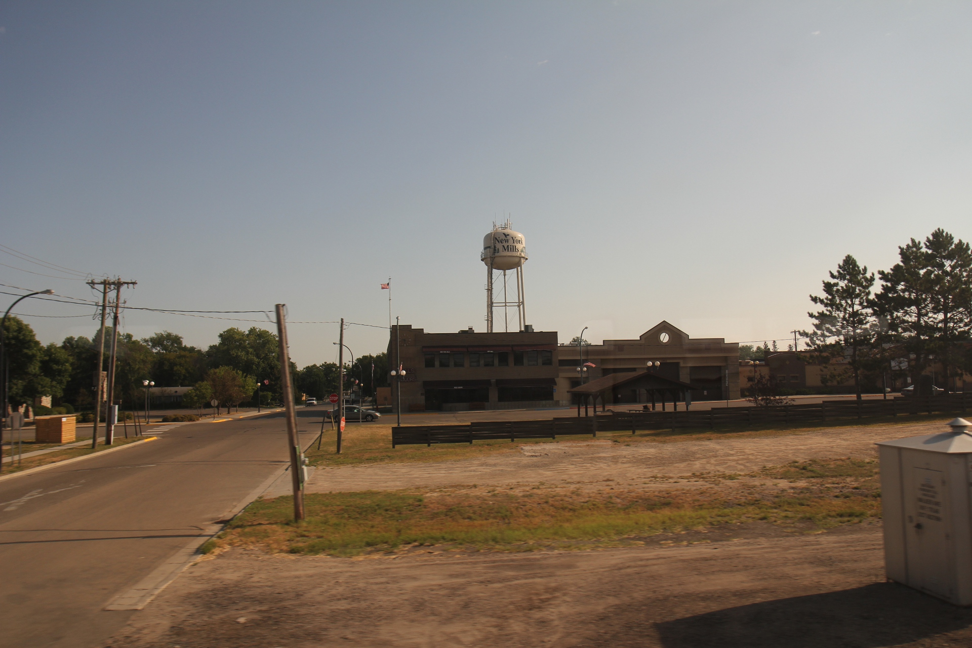 New York Mills, MN photographed from Amtrak